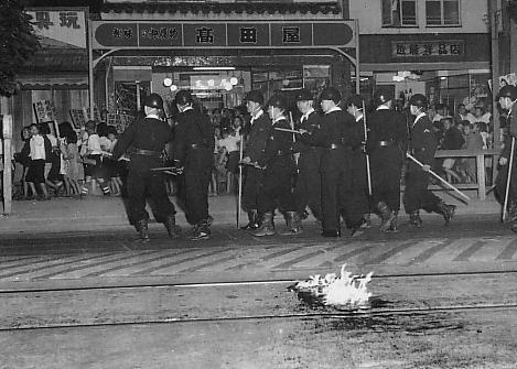 Oosu Incident